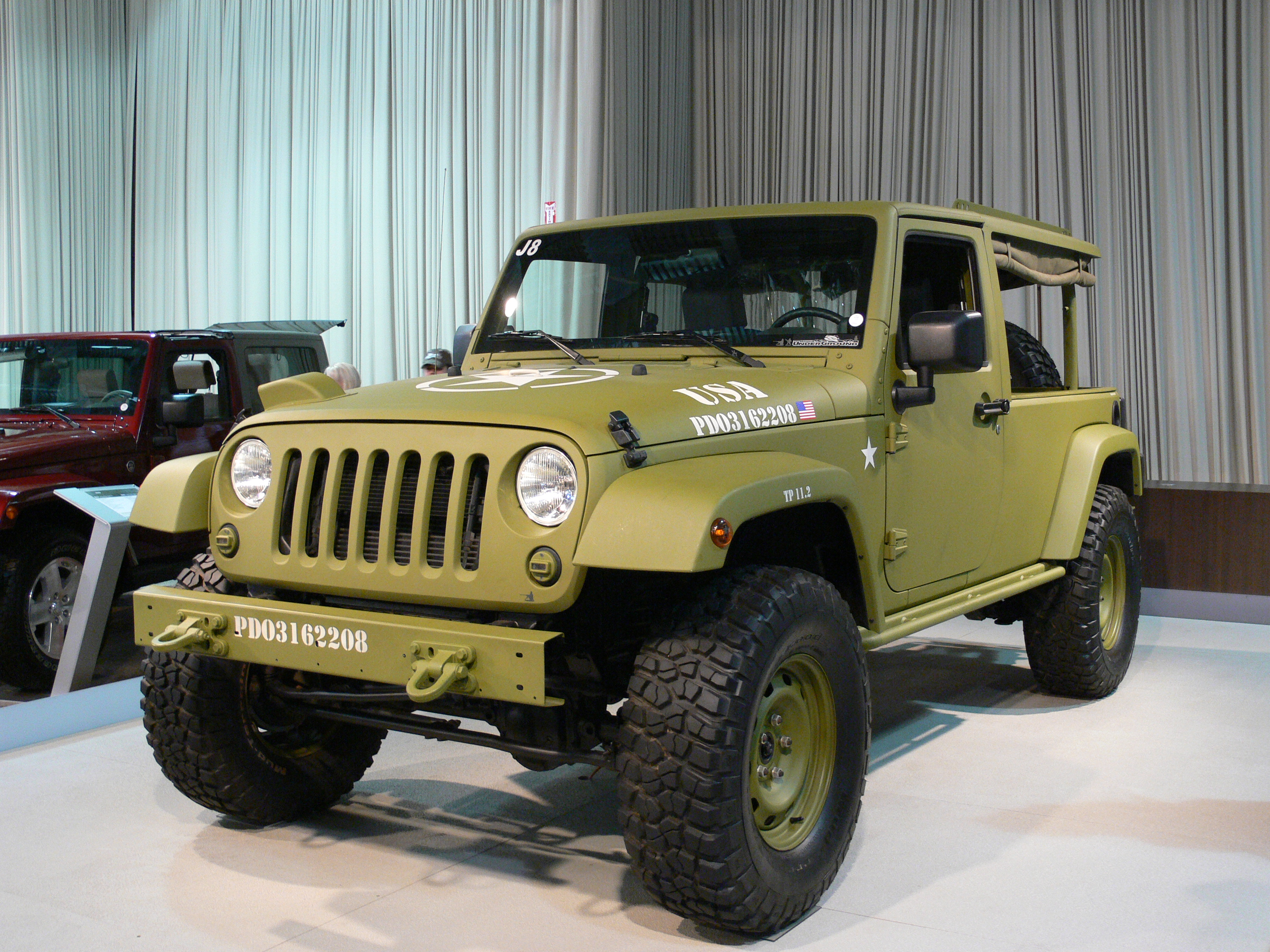 State Fair of Texas 2008, at Fair Park, Dallas, Texas: an army vehicle at the Auto Show (to be identified)